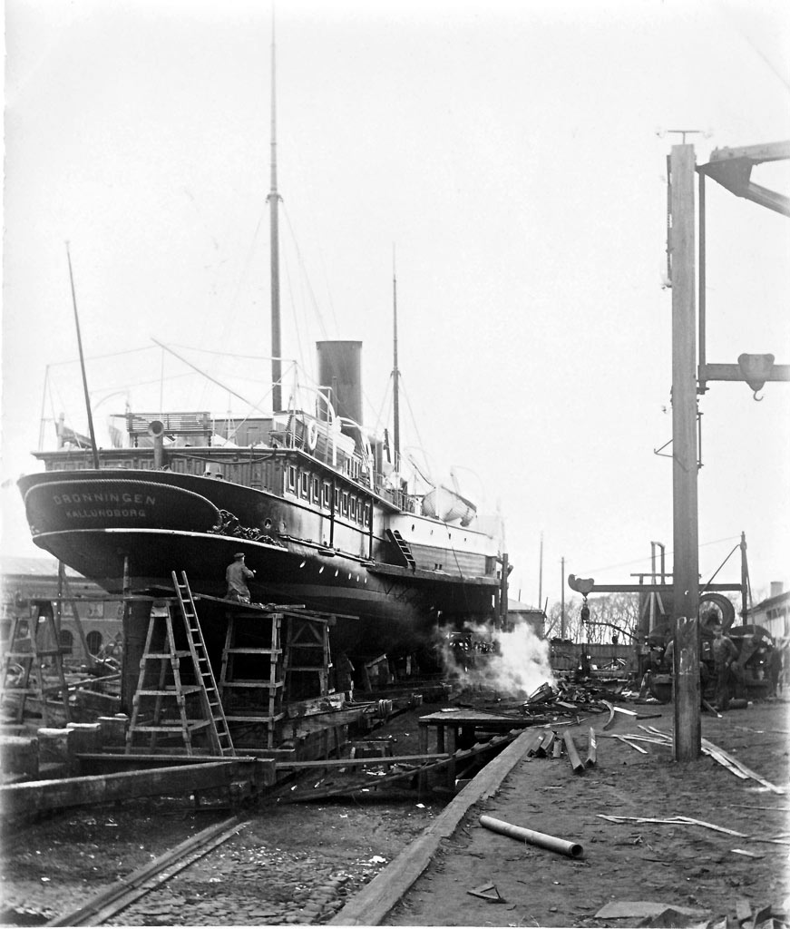 The paddle steamer Dronningen at Elsinore Shipyard. The ship became Danish in 1888 and was wrecked in 1916. Photo property of Uffe Mortensen.